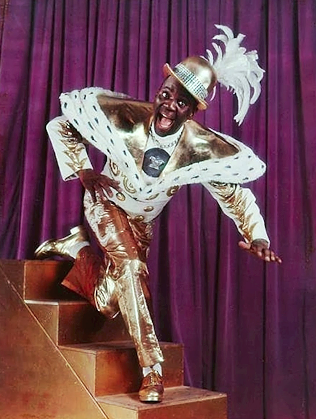 Photo of Bill "Bojangles" Robinson in the Hot Mikado on the cover of the New York Sunday News in 1939. A search for renewals was done in periodicals for the years 1966 and 1967. There were no renewals for New York News, New York Daily News, or New York Sunday News. There's no evidence that copyright continues to be claimed on this material.